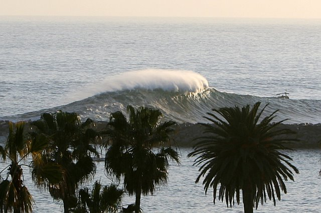 Heavy surf at Corona del Mar, Newport Beach, California.